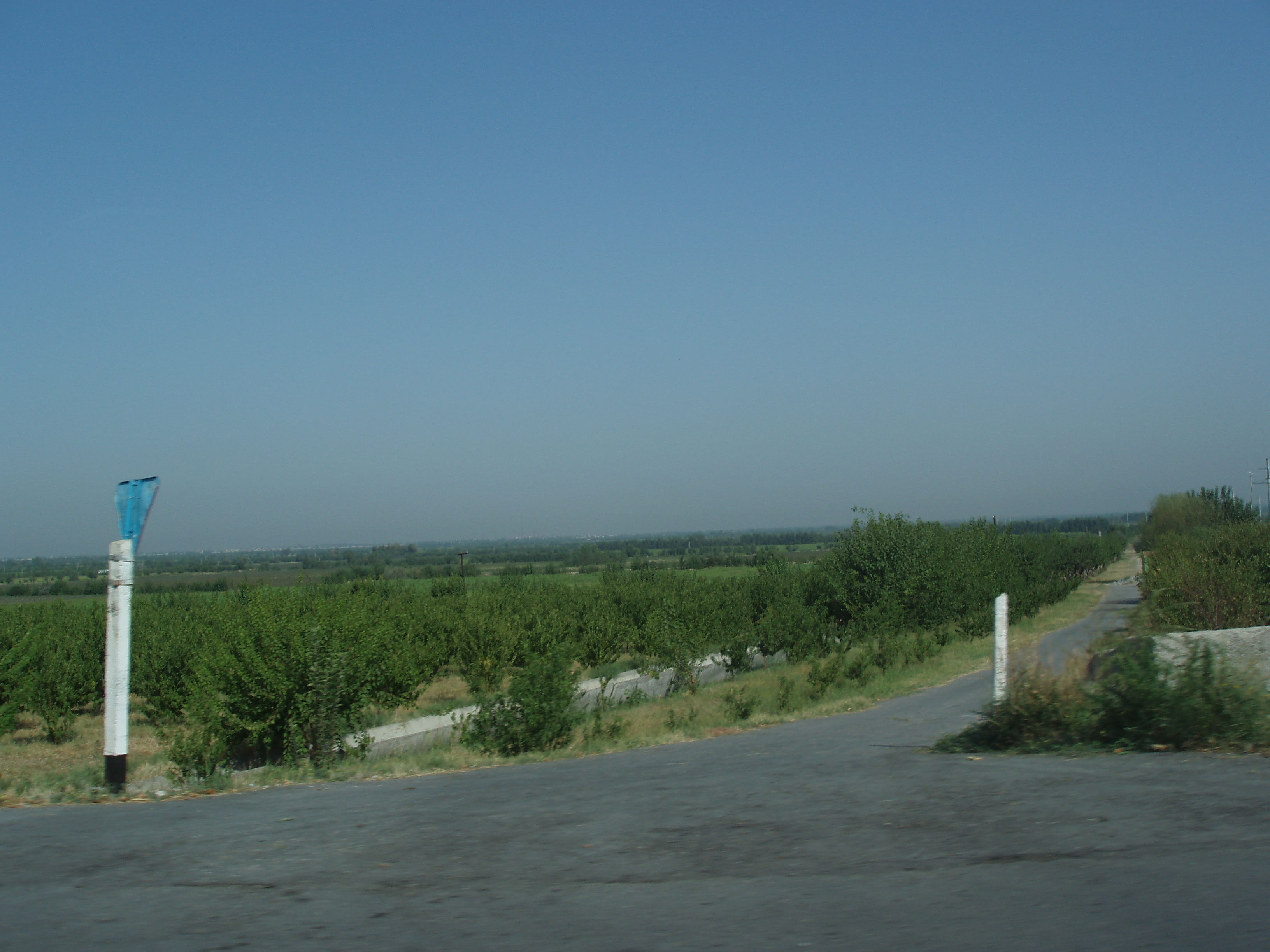 in Uzbek Ferghana Valley, in the west of Ferghana city